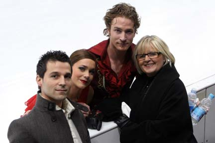 Nathalie PECHALAT and Fabian BOURZAT at the boards with their coachs Muriel Zazoui and Romain Haguenauer at the 2007-2008 Grand Prix Final